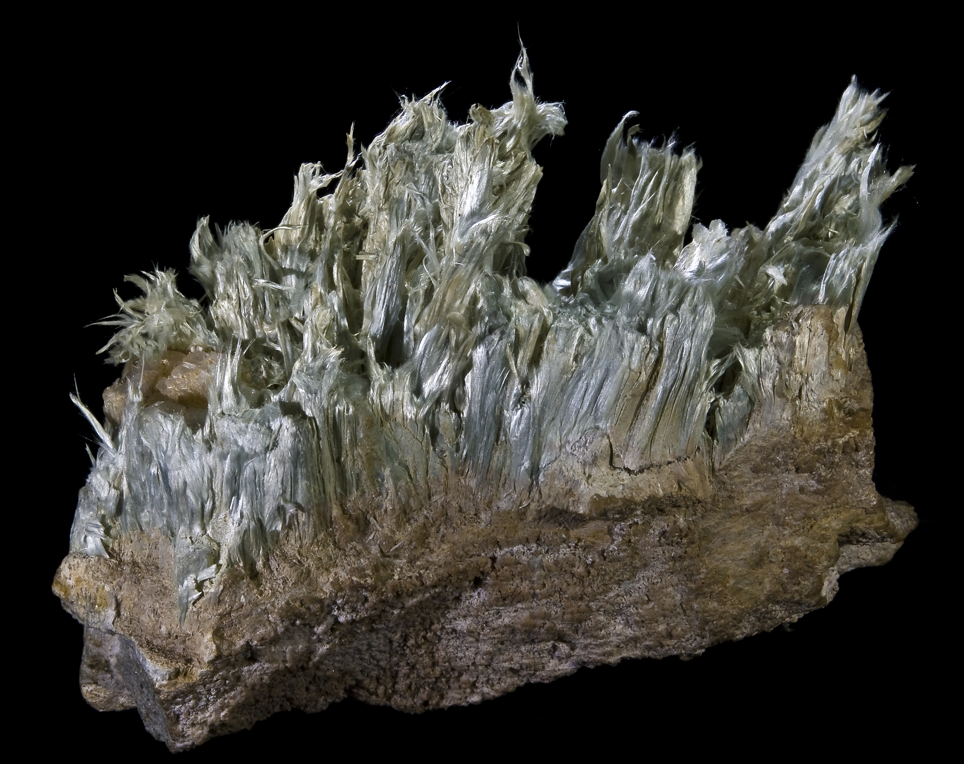 Tremolite Locality : Aure Valley, Hautes-Pyrénées, Midi-Pyrénées, France Size : 8.2 x 6.7cm